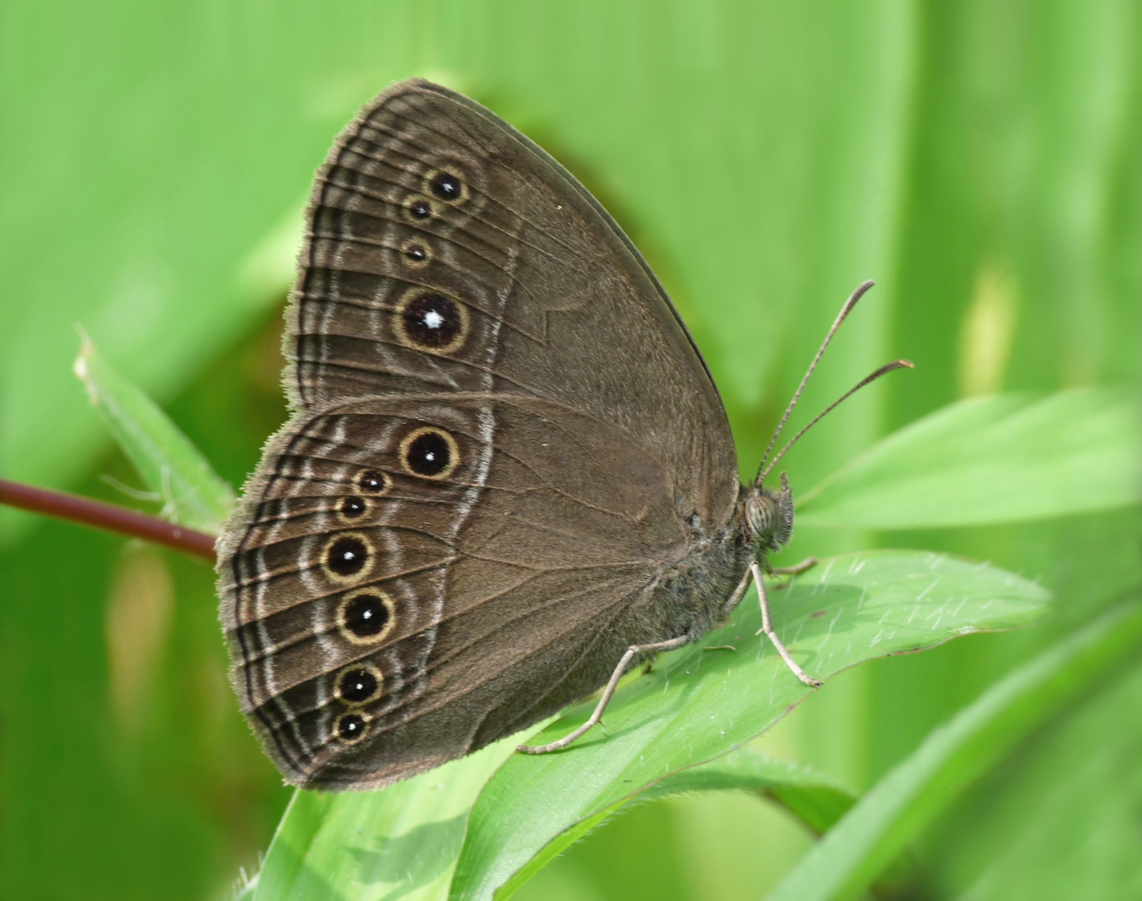 Mycalesis perseus, Dingy Bushbrown or Common Bushbrown, is a species of Satyrine butterfly found in South Asia and Southeast Asia. Identification: 1. Indentation line deepens in a broad V or bowl; FW often with four spots arranged in an arc. 2. HW lower four spots aligned in two groups, spot two and three out of line with the lower two in space 1b. Taken at Kadavoor, Kerala, India.